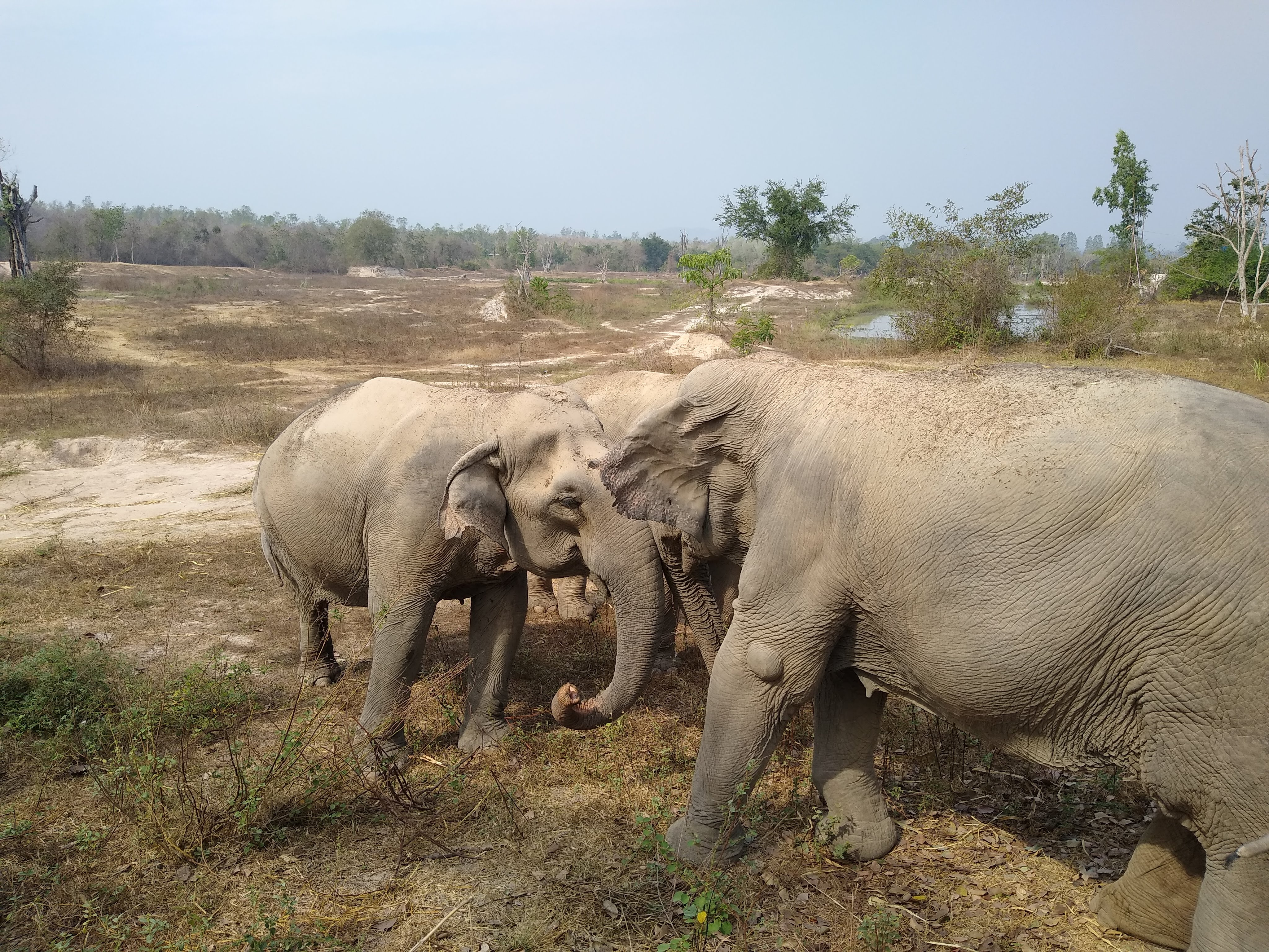 Elephants at the Wildlife Rescue Centre and Elephant Refuge operated by Wildlife Friends Foundation Thailand (WFFT).